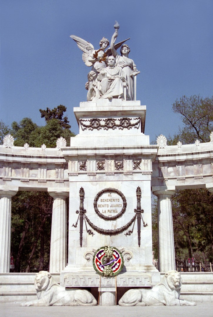 A monument honoring the great Benito Juarez in Alameda Park in Mexico City